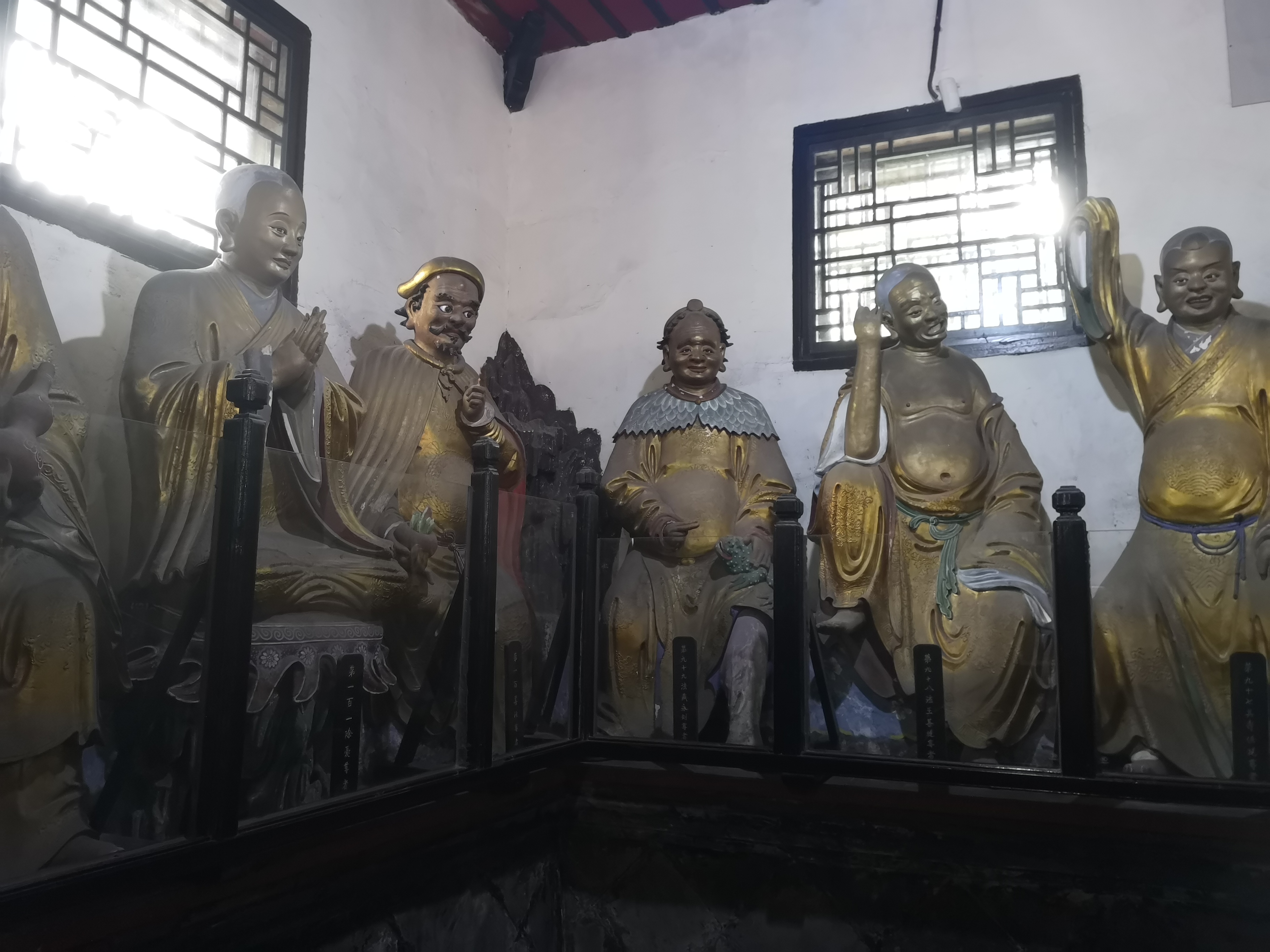 five hundred Arhats sculpture in Luohantang (Arhats Hall) in Baoguang Temple, Chengdu, Sichuan, China